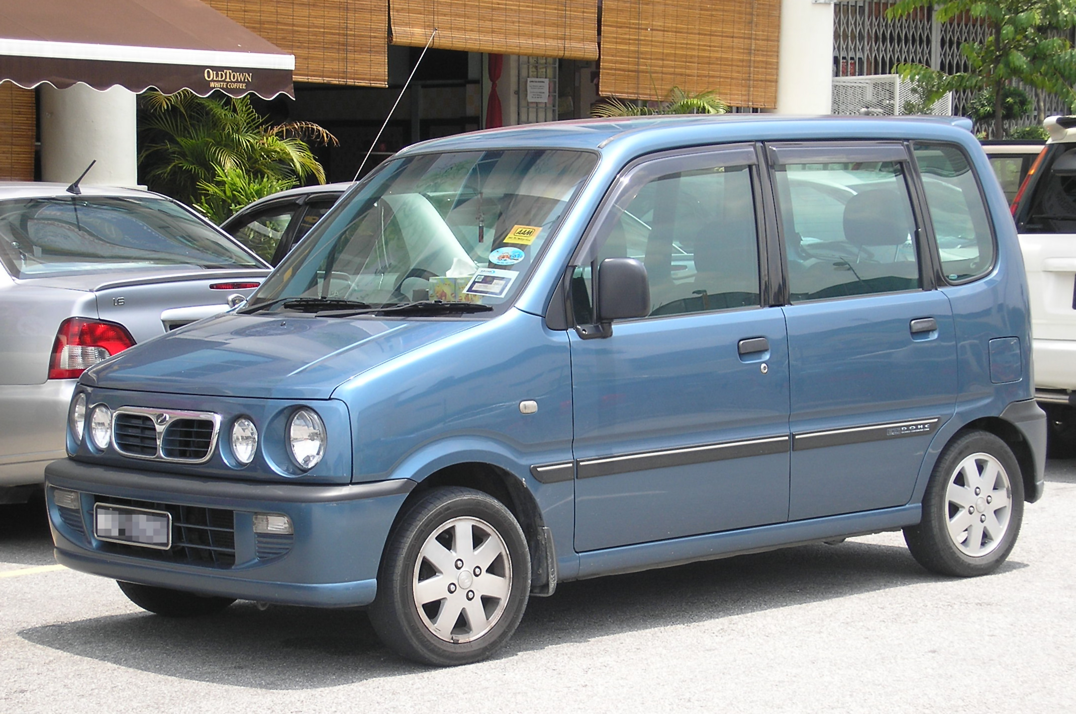 The front of a first generation Perodua Kenari, in Serdang, Malaysia.